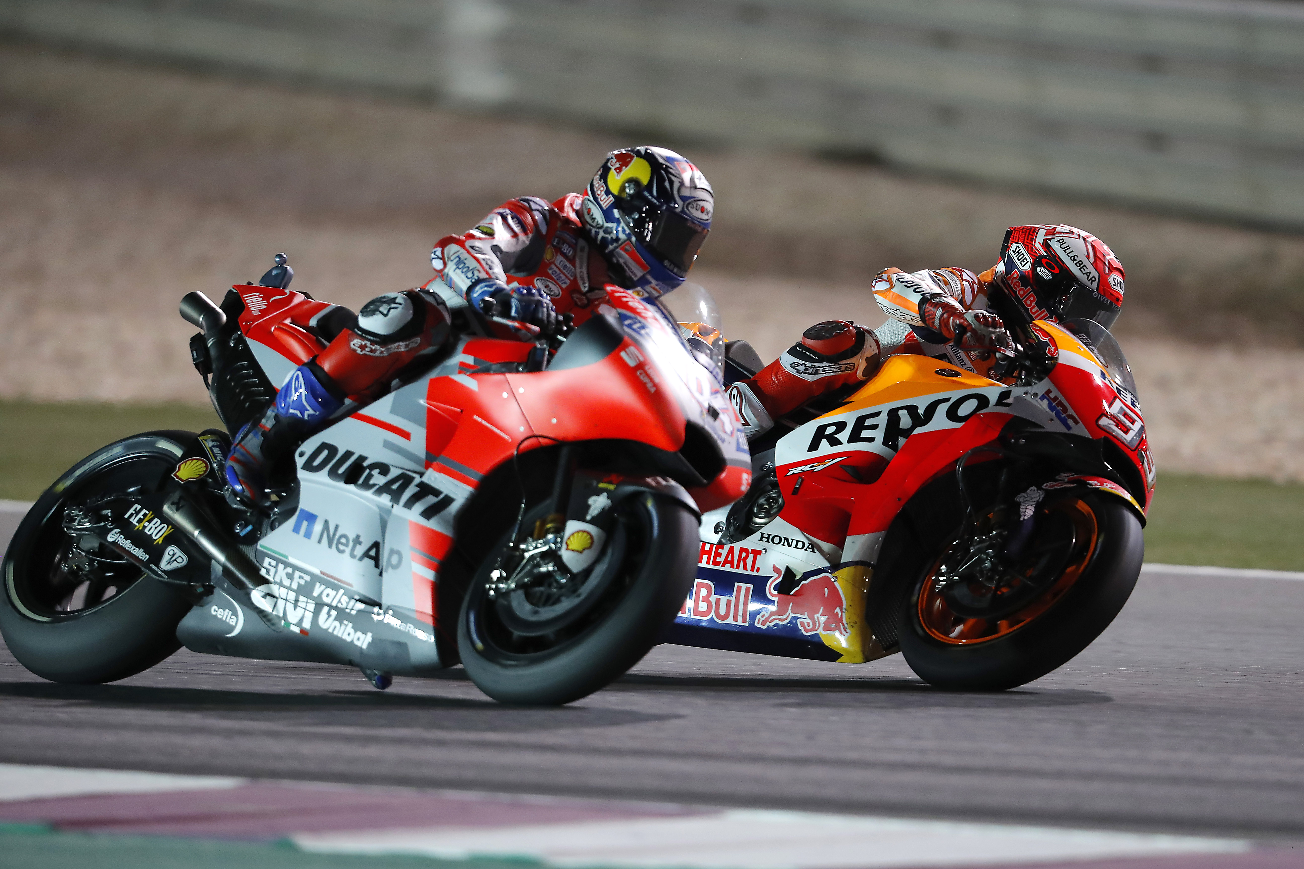 Marc Márquez, riding his Repsol Honda, battling with the Factory Ducati of Andrea Dovizioso at the 2018 Qatar Grand Prix.